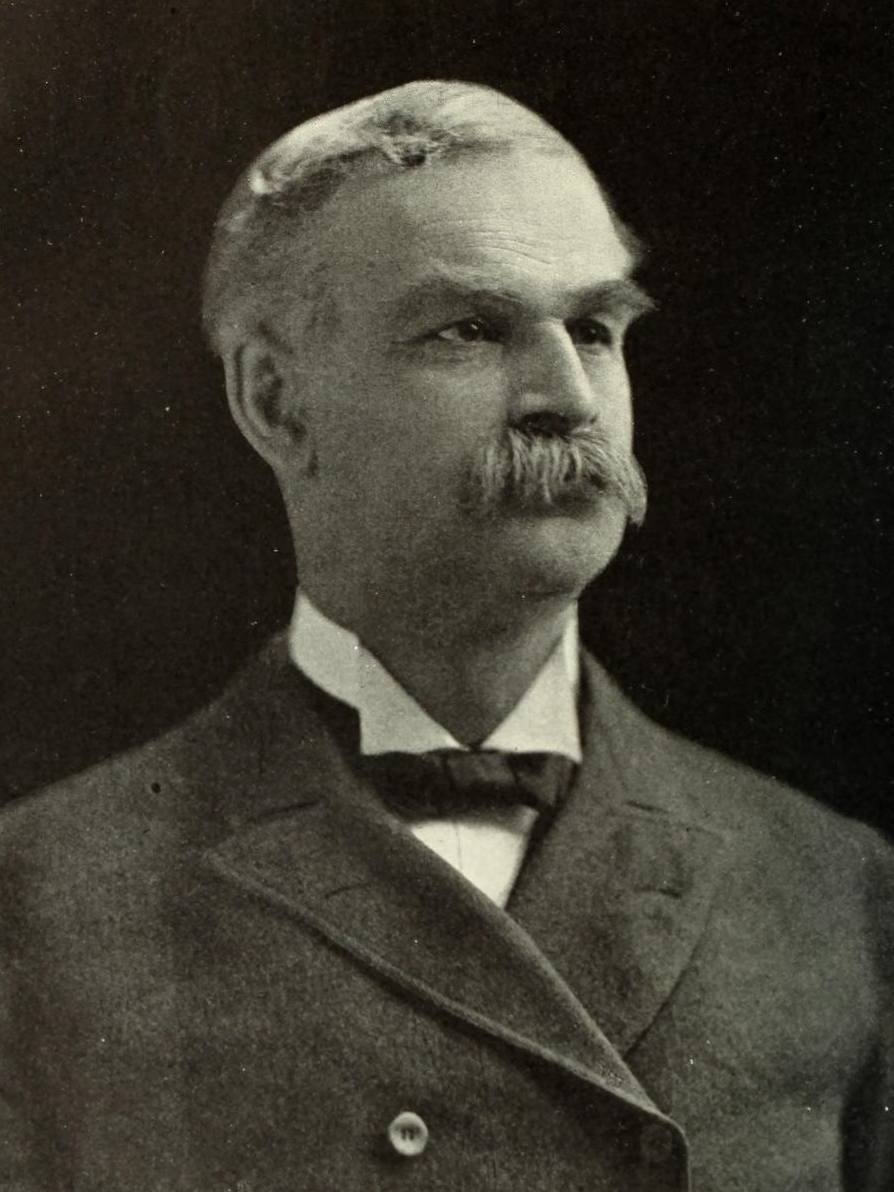 Portrait of Charles E. Littlefield